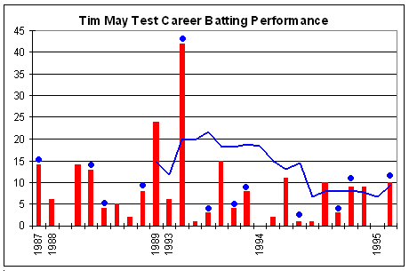 Test batting chart of Tim May. Red columns are the runs in the innings. Blue dots indicate not outs. Blue line is average in the last ten innings. Thanks to Raven4x4x for providing the template.